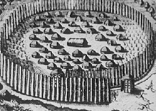 A sketch by Le Moyne that shows a Timucua village. The images attributed to Le Moyne (actually engravings produced by a Dutch publisher named Theodor de Bry, who was supposed to have based his engravings on paintings by Le Moyne) have fallen under intense scrutiny and their legitimacy as works related to Le Moyne are considered very questionable. Jerald Milanich, author of books on the Timucua and an archaeologist at the Florida Museum of Natural History has published an article in which he questions whether Le Moyne produced drawings of the Timucua at all, based on the unexplainable lack of any definite documentation or evidence. (See: Milanich, Jerald, "The Devil in the Details", Archaeology, May/June 2005) Thanks to for the image